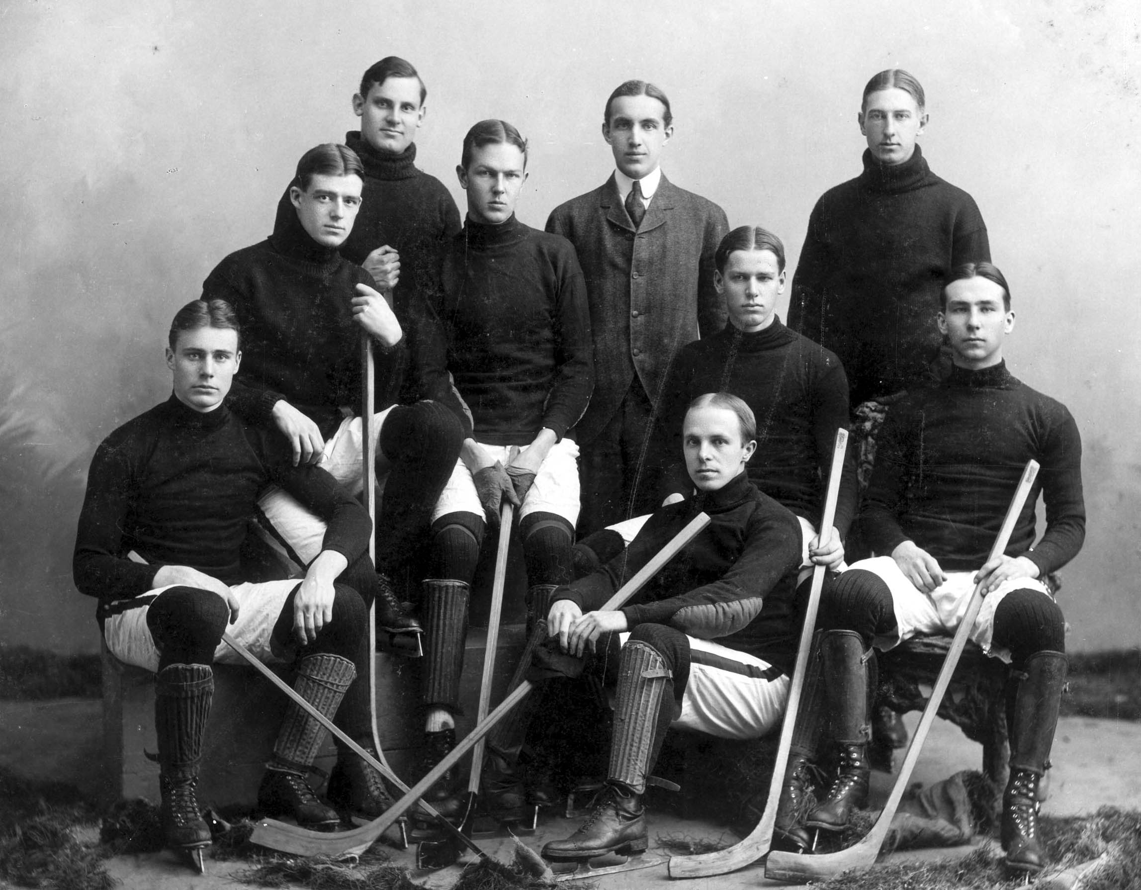 Harvard University ice hockey team in 1901. From left to right: Charles Rumsey, Dunlap Penhallow, John Manning, William Laverack, Hallam Movius (plain clothes), Frederick Goodridge, Alfred "Ralph" Winsor, Roger Hardy, Robert Pruyn.